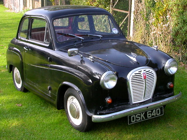 Austin A35